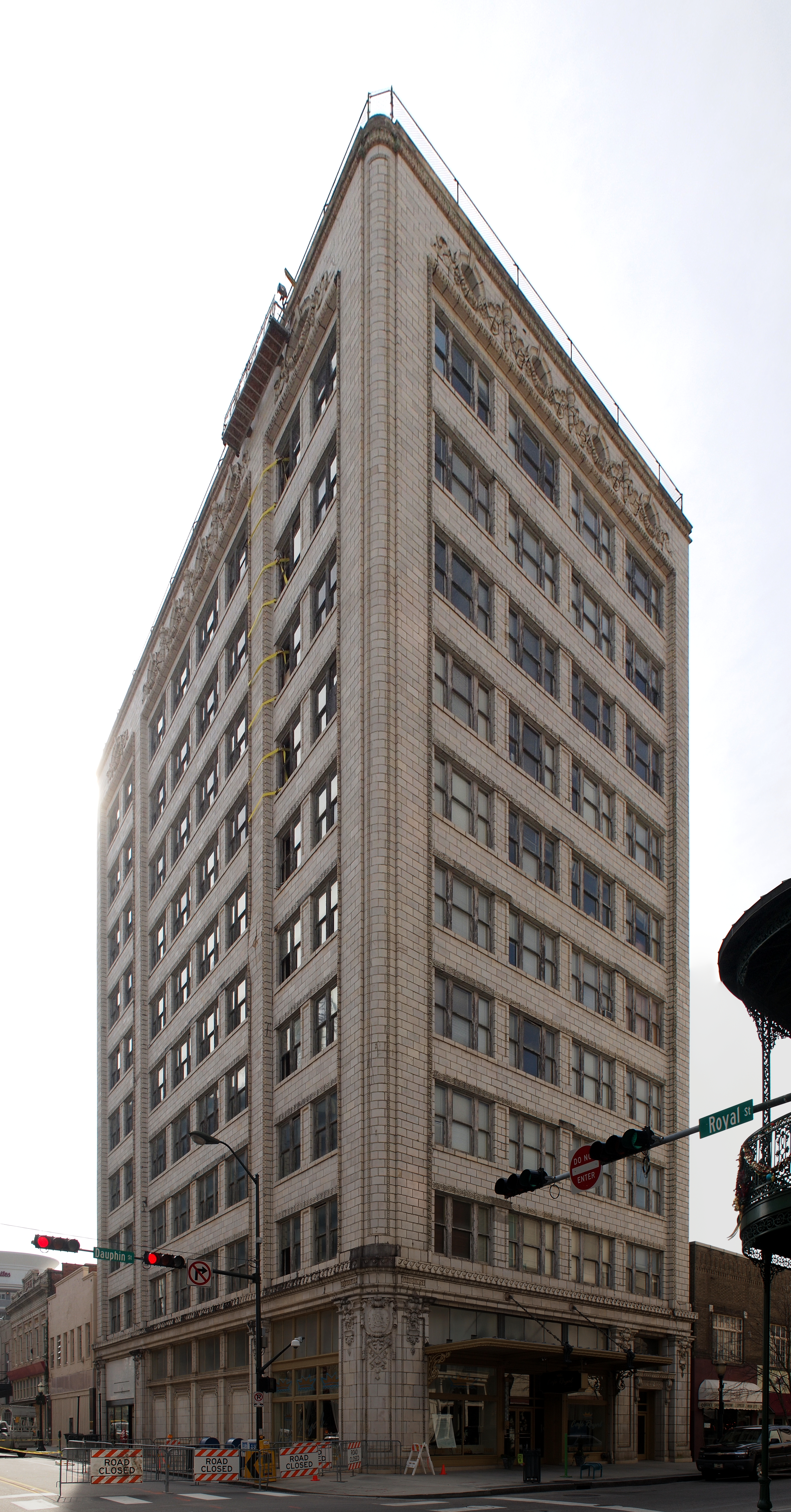 These are two views of the Van Antwerp Building here in Mobile, AL. This building apparently made the news recently when an engineering firm discovered that one of the columns was bulging, and the terra cotta facade was in danger. This is actually visible in this image if you view it large, and also visible are the comealongs used to hold the facade in place! Image generated from 3 photos taken with my E-P1 17mm lens, then the views corrected for two different types (not including barrel distortion) of views. View on the left is a rectilinear projection with no vertical references defined. View on the right is rectilinear with vertical references, producing what is more commonly referred to as an "architectural view" (or axonometric, or planometric in this case). Olympus E-P1 17mm ZD 1/4000 f/4 ISO-200 This image was created with Hugin This graphic was created with GIMP.